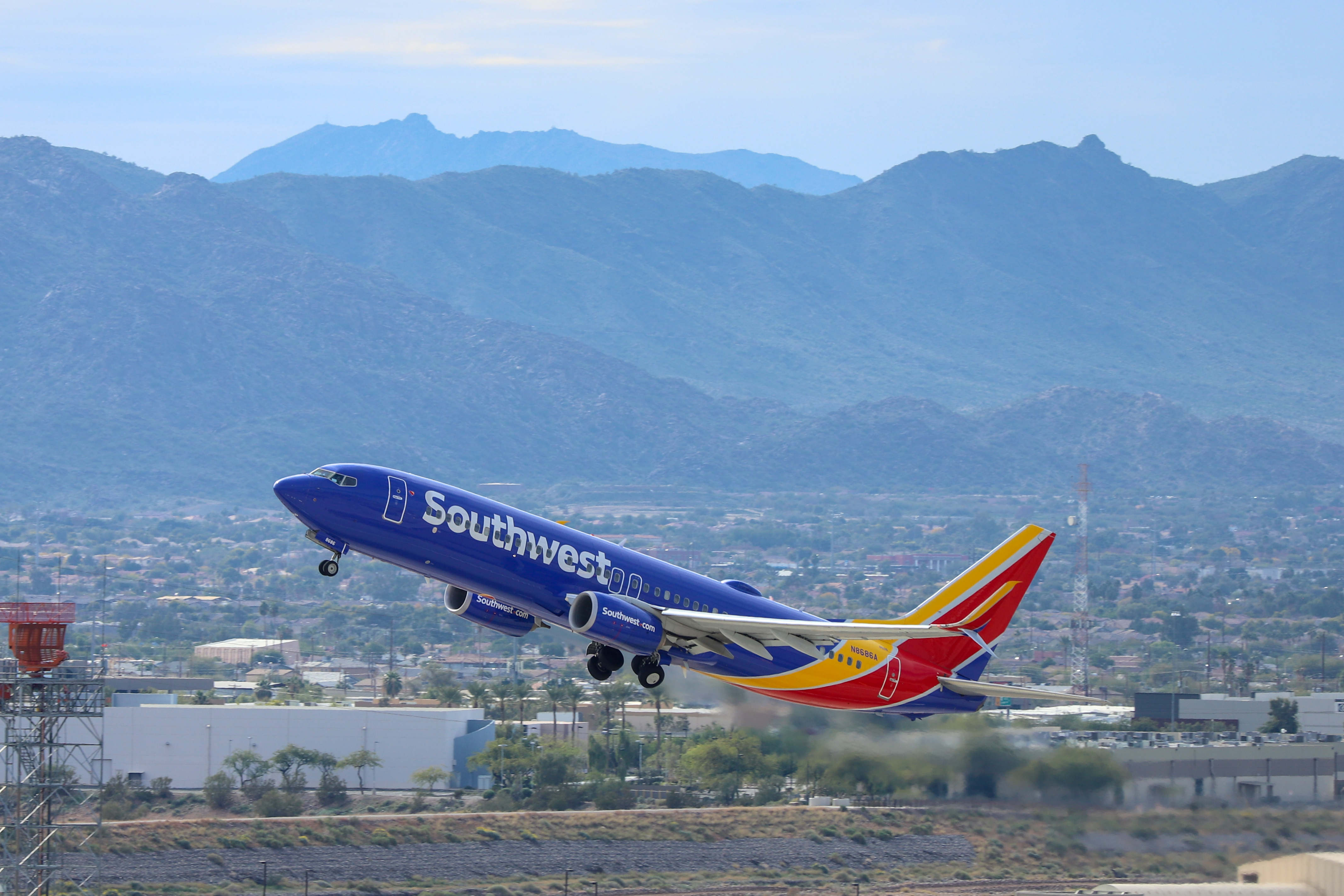 A Southwest 737-800 departing Phoenix Sky Harbor International Airport.